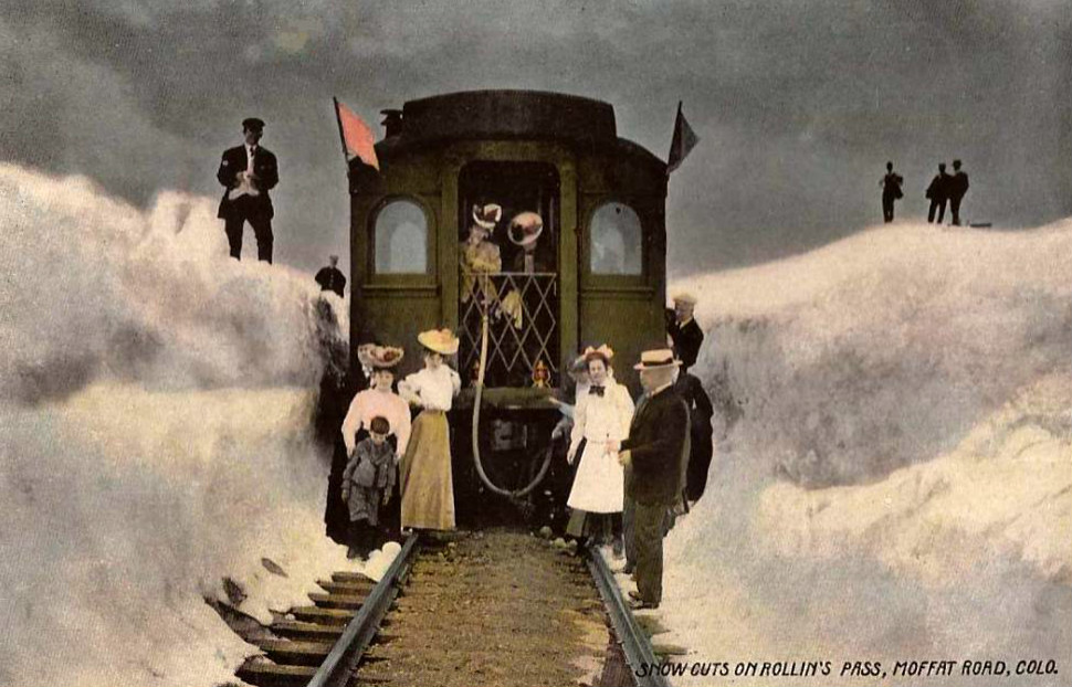 Postcard photo of the snow cuts at Rollins Pass on the Denver and Salt Lake railroad.